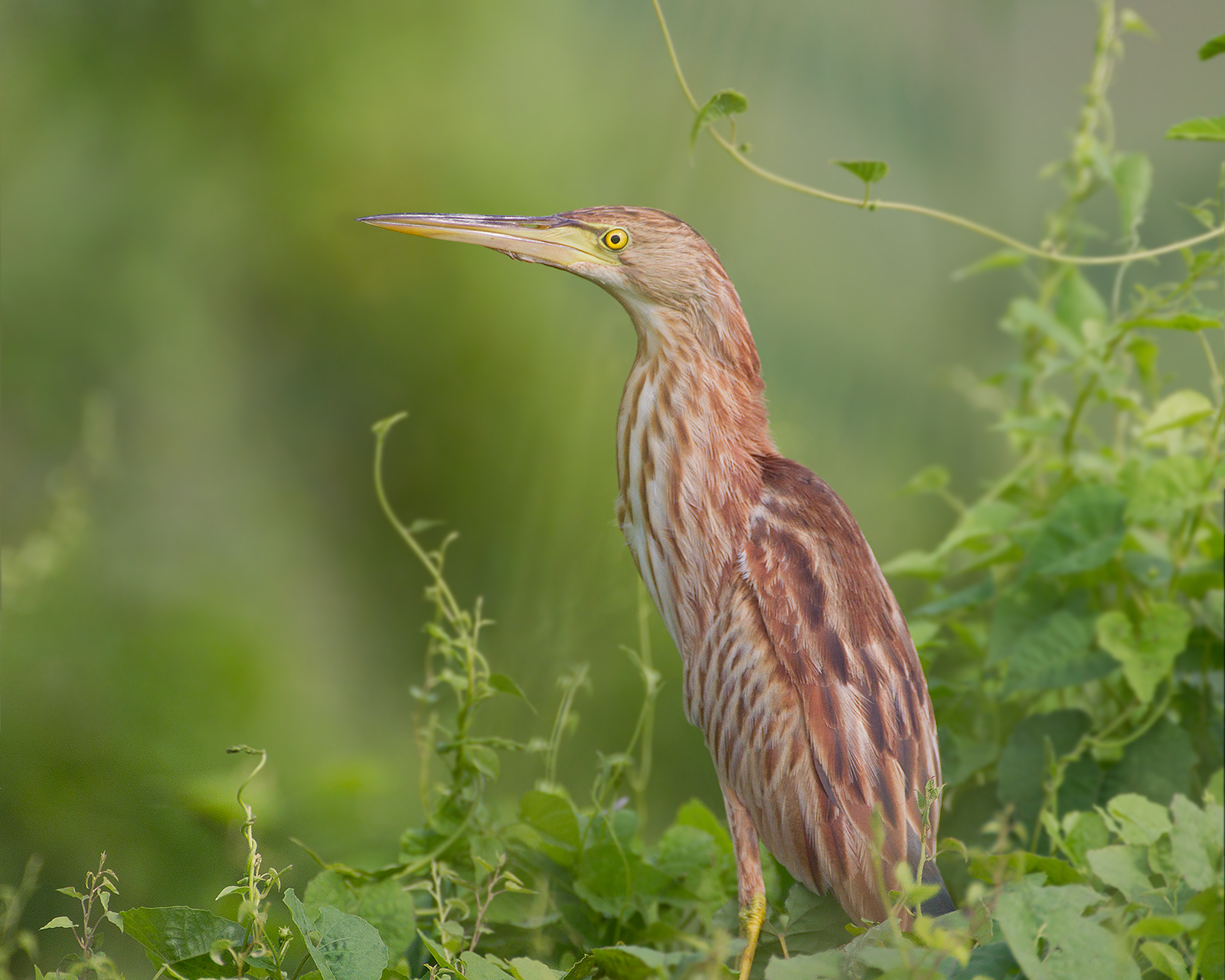 Yellow Bittern (Ixobrychus sinensis), Bueng Boraphet, Nahkon Sawon, Thailand